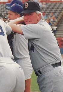 Image cropped from a baseball card of John McNamara from the 1986 Boston Red Sox Photo Cards Series I & II set.